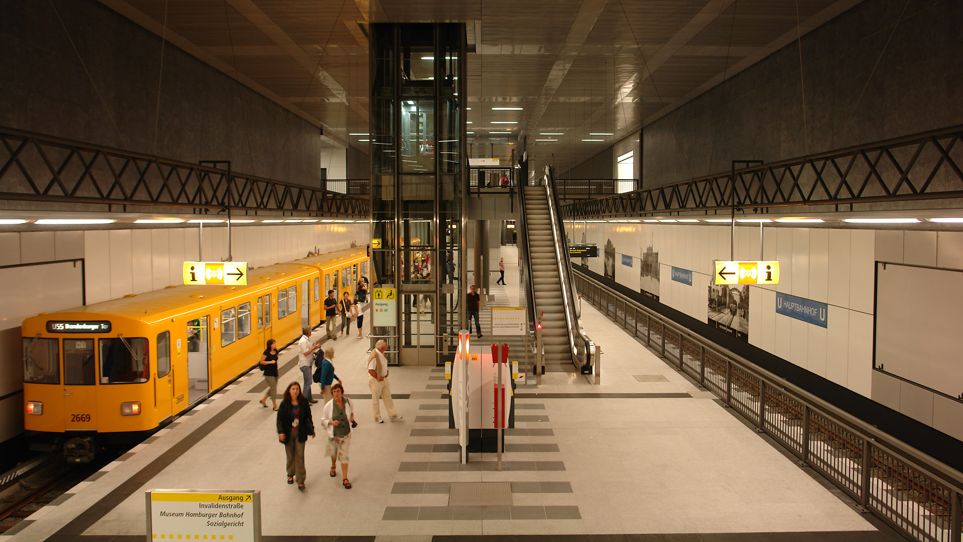 Subway station Hauptbahnhof in Berlin, Germany